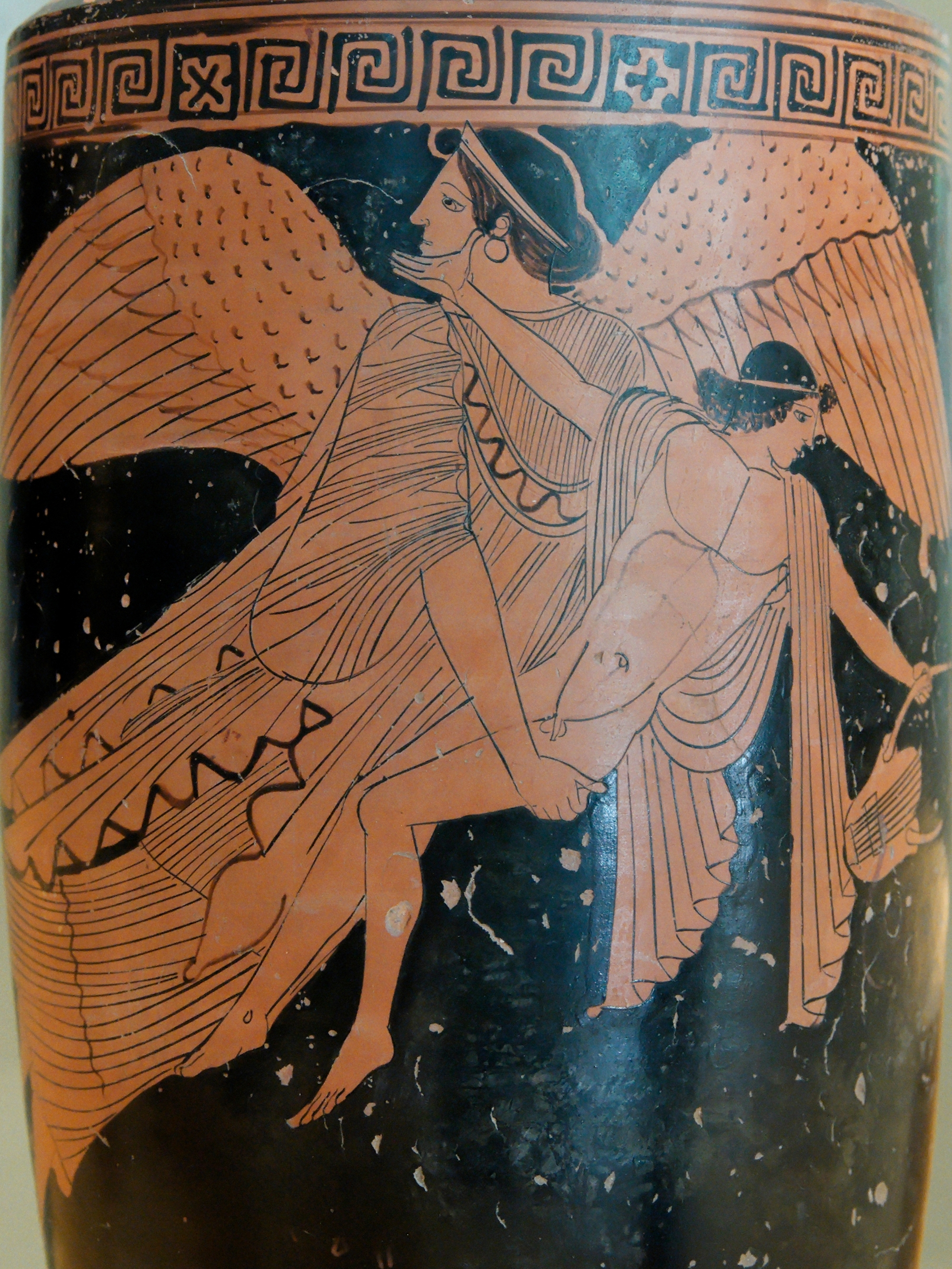 Eos carrying away young Kephalos (named); kalos inscription (here unseen). Belly of an Attic red-figure lekythos, ca. 470–460 BC.